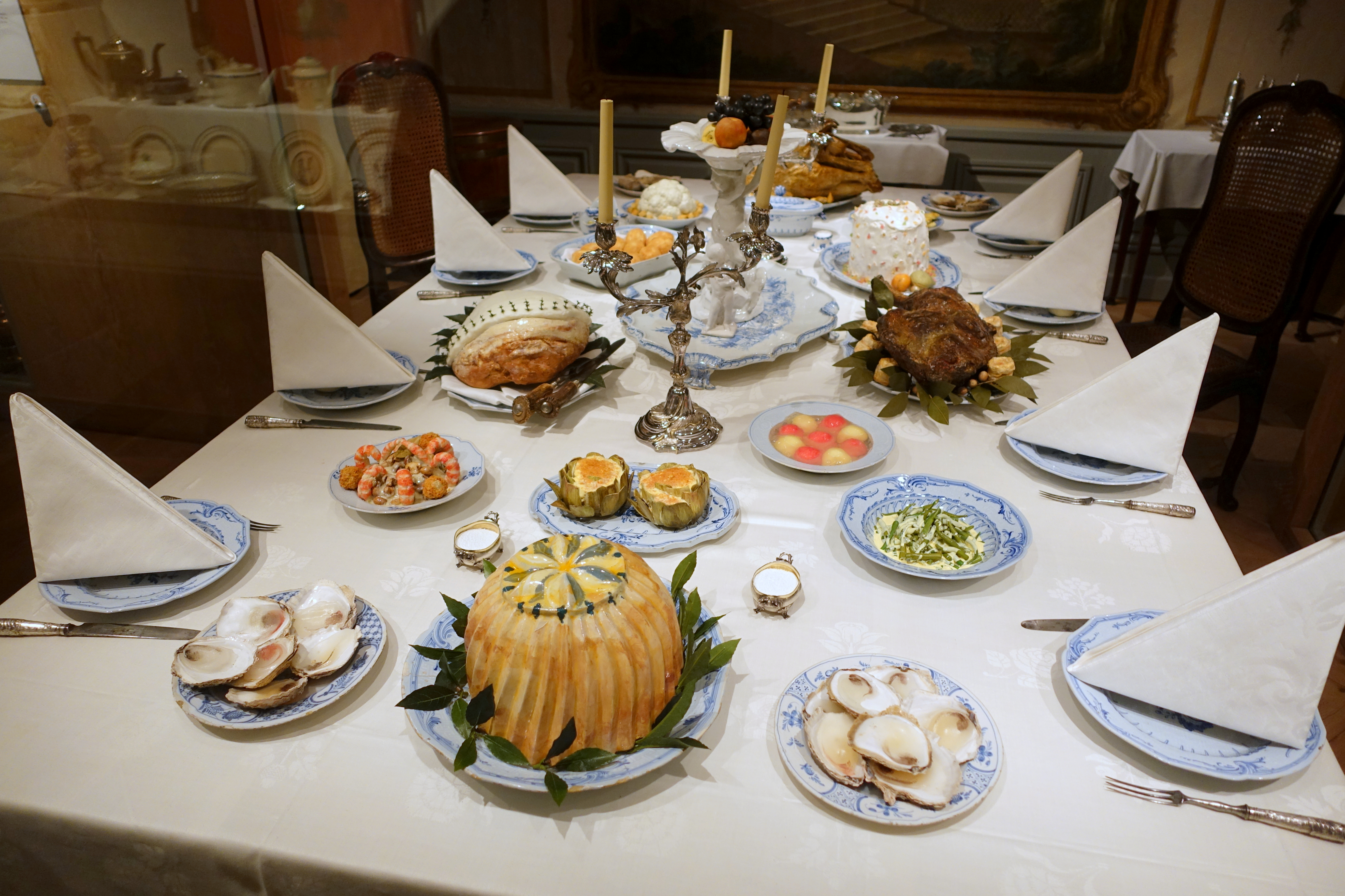 Exhibit in the Nordiska museet - Stockholm, Sweden. This work is in the public domain because the artist(s) died more than 70 years ago.